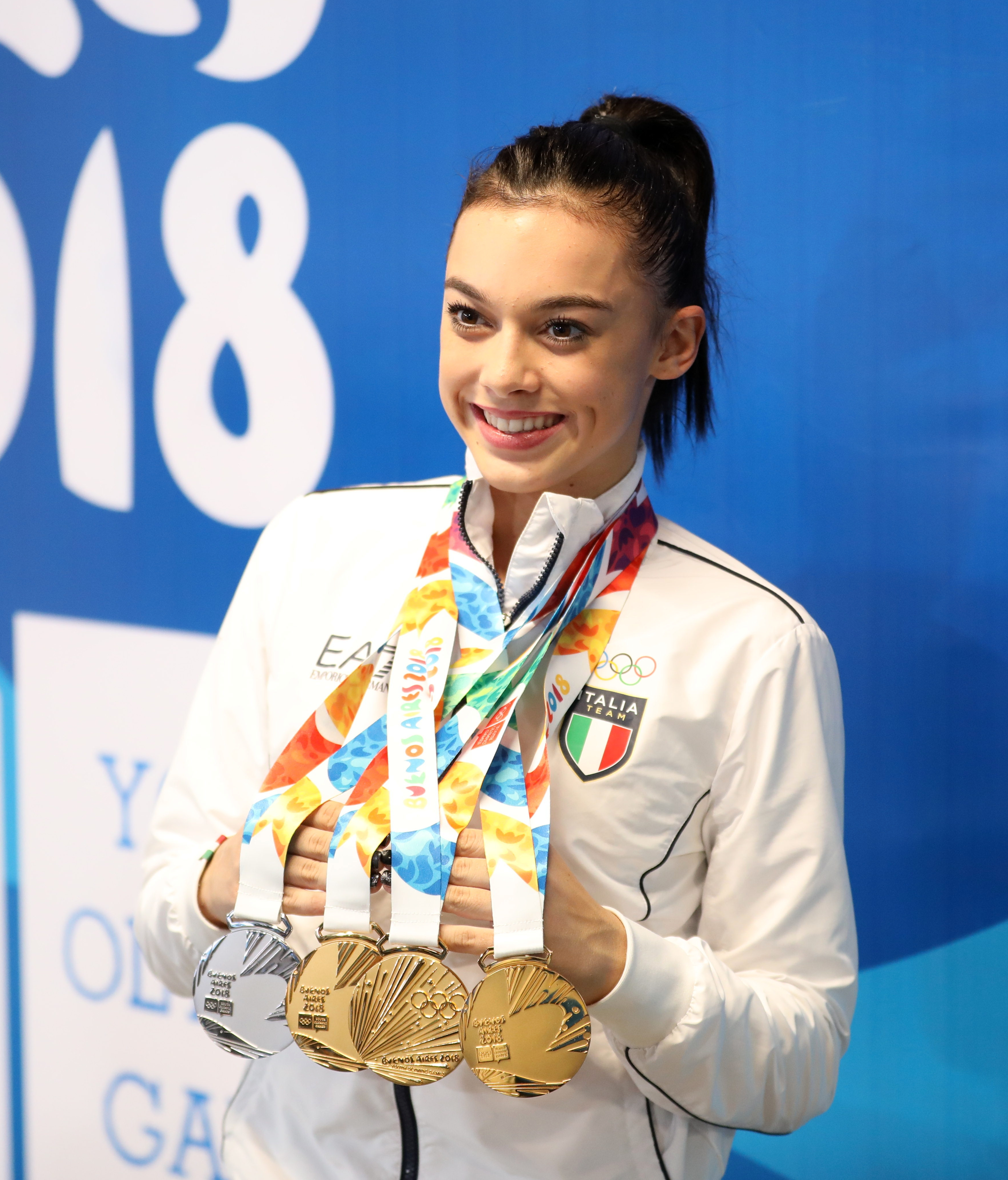 Girls' Artistic gymnastics, Floor: Victory ceremony